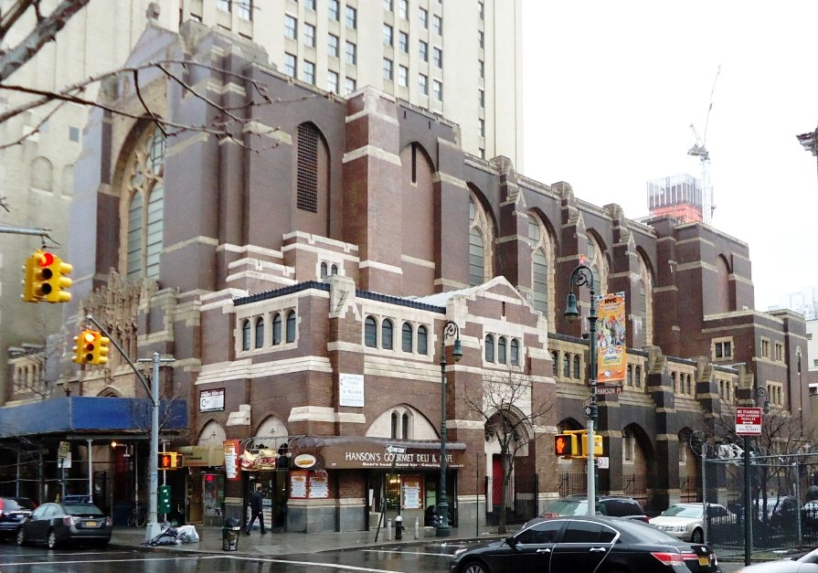 The Hanson Place Central United Methodist Church in Brooklyn, New York, near Fulton Avenue and Flatbush Avenue.